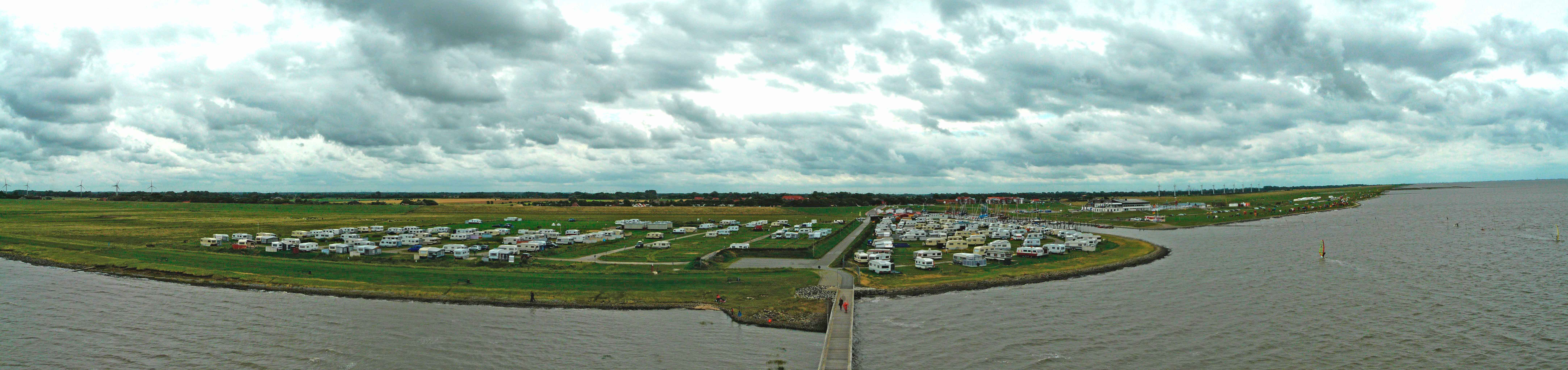 Panorama view of Dorum-Neufeld shot from the light house "Obereversand"